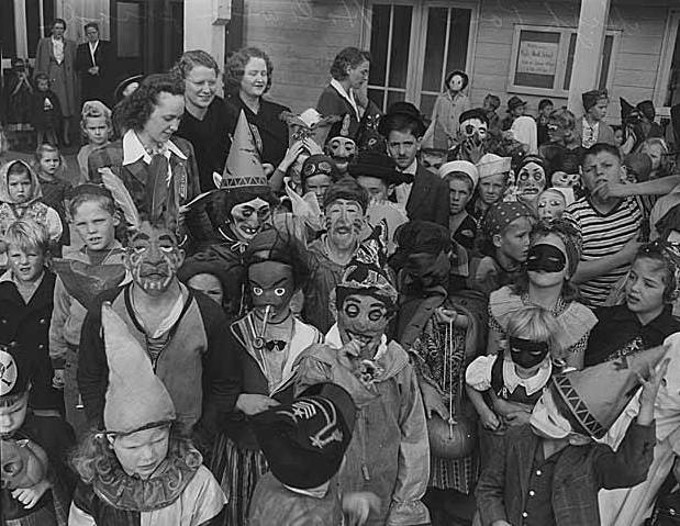 Creator: Staff PhotographerSeattle Post-Intelligencer Description: The High Point housing project was built to house workers and their families who came to West Seattle during World War II, when the area's shipyards and airplane factories provided many new jobs. The project's 1,300 apartments were ready beginning in April 1942. During the first year, kindergarten was held at the community hall and later a 12-room High Point School opened. This photo shows children at a party, probably being held in the community hall. View source image . More information on the commercial rights for this photo . Part of King County Snapshots University of Washington Libraries . Brought to you by IMLS Digital Collections and Content . Unrestricted access; use with attribution.